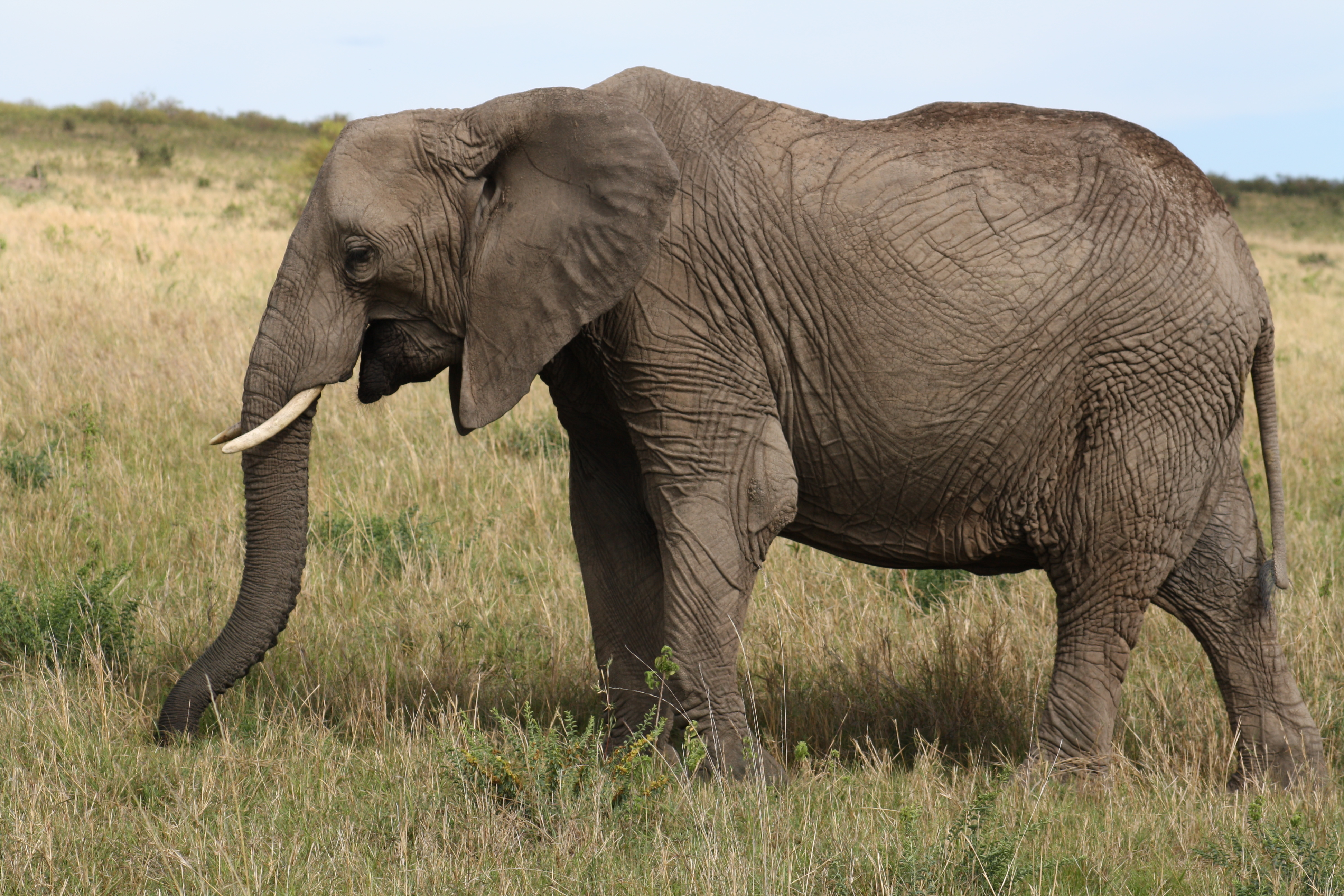 After that rather daredevil crossing right in front of the large herd of elephants, all those mighty pachyderms are behind us now, with none facing us or turned our way. I could then muster up enough courage to move to the back of the now stationary car and shoot this specimen which was directly behind us. (Oct/ Nov 2010)